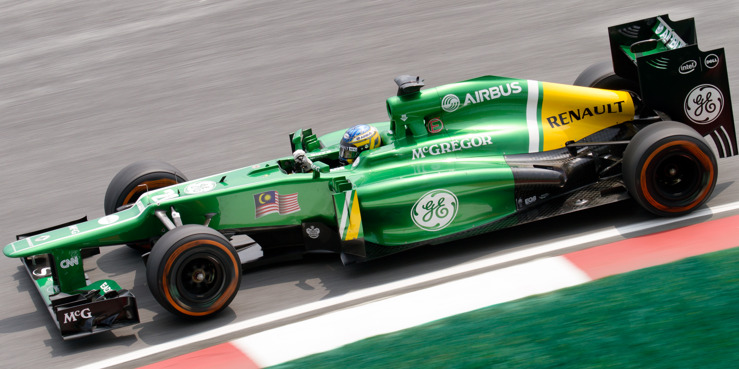 Formula One 2013 Rd.2 Malaysian GP: Charles Pic (Caterham) during the first practice session on Friday.